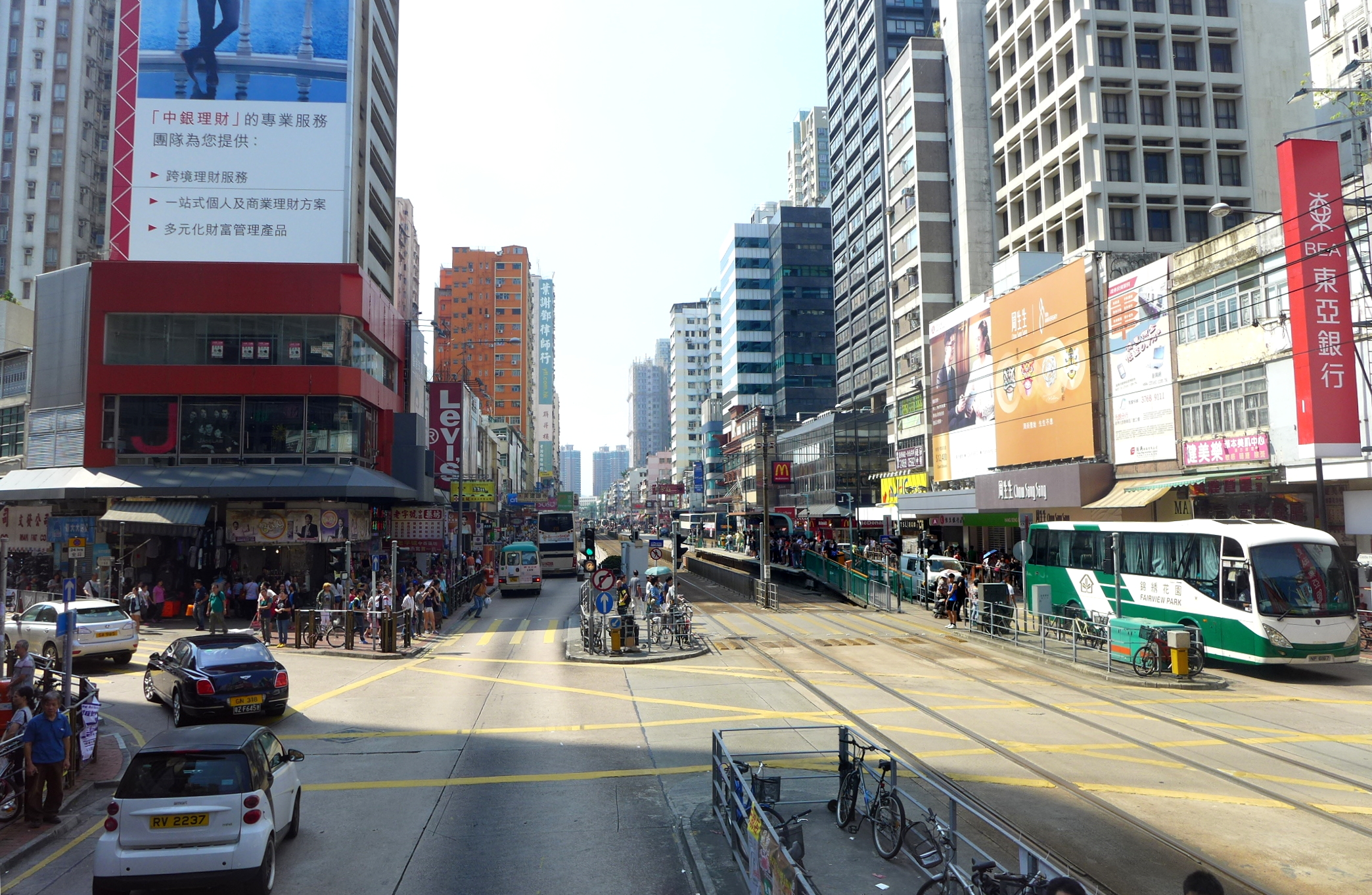 Castle Peak Road Yuen Long Section